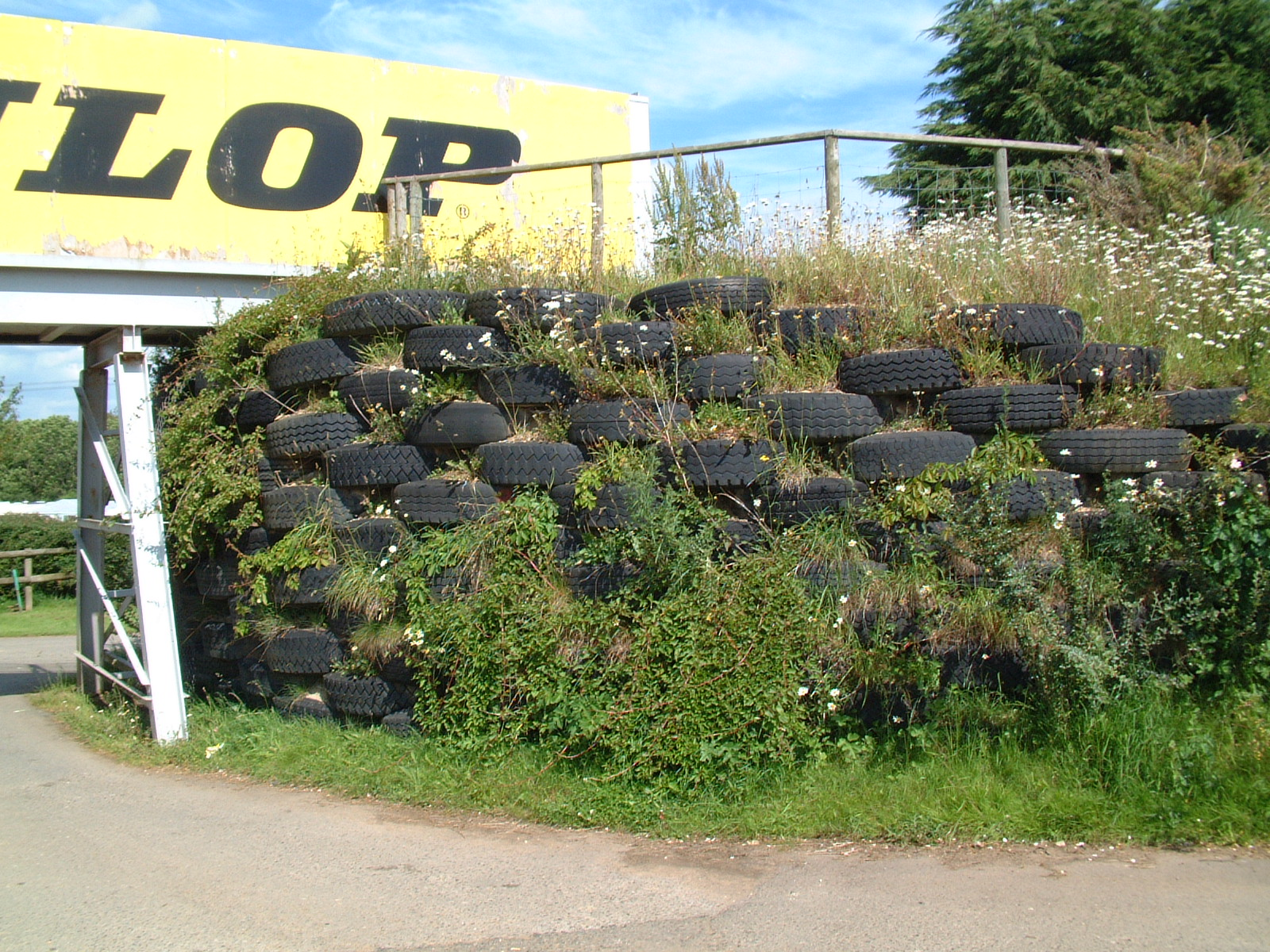 The rabbit-infested tyre walls of Castle Combe Circuit.